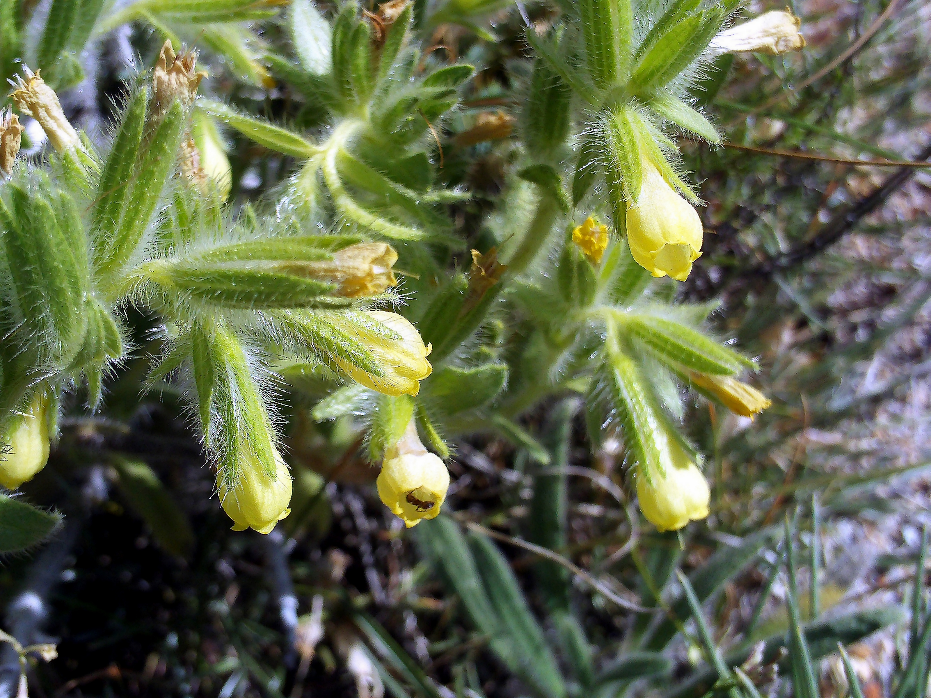 Onosma tricerosperma subsp. granatensis flowers close up, Sierra Nevada, Spain